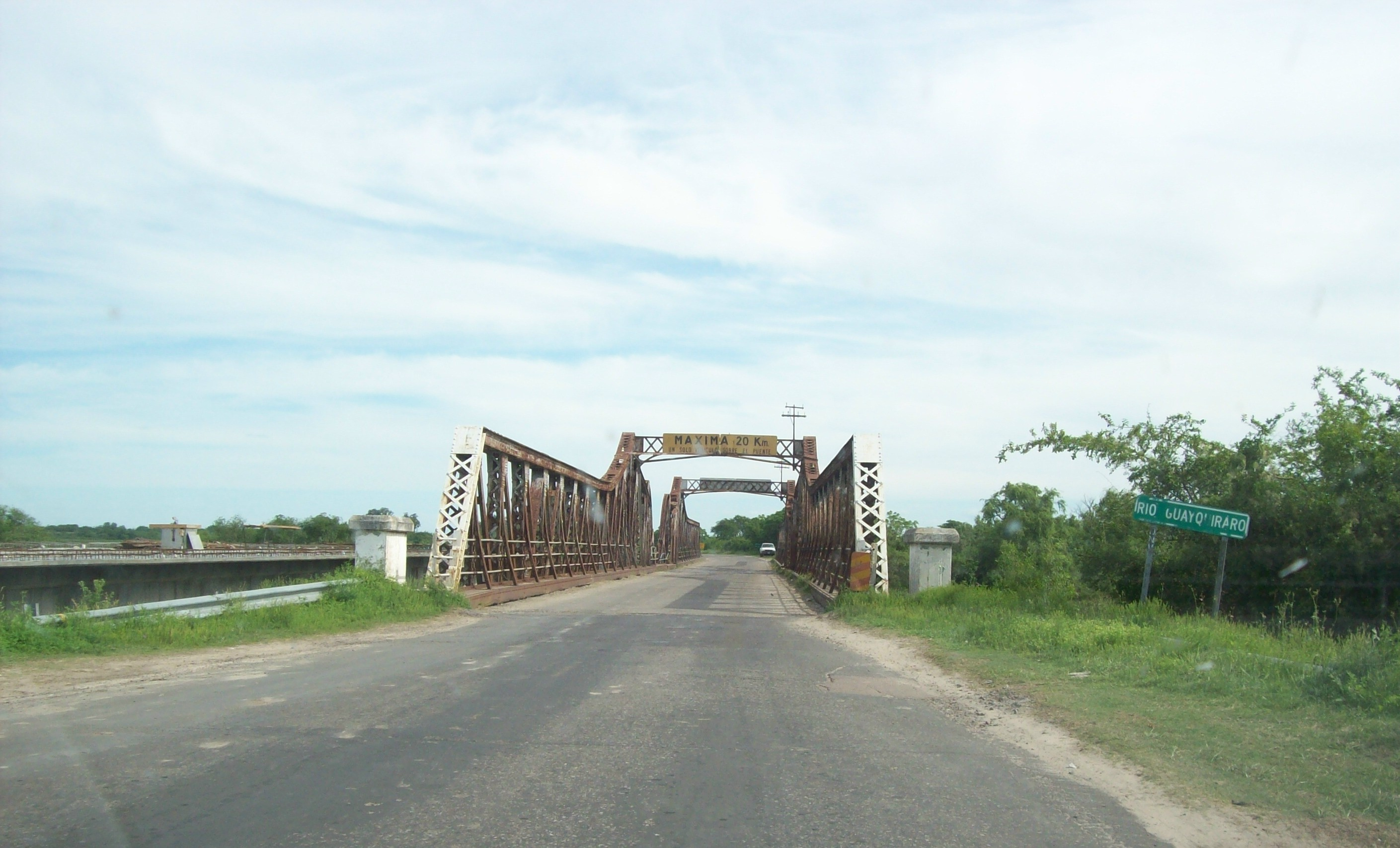 Bridge over Guayquiraró River on the border of Entre Ríos and Corrientes provinces, Argentina. Opened in 1938.